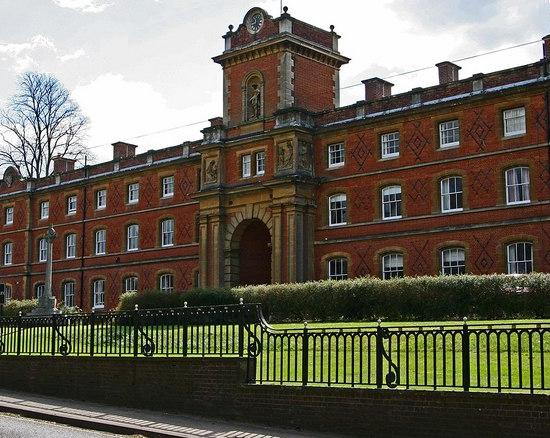 King Edward's School, Witley